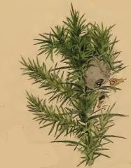 Stainton’s Natural History of the Tineina (1855–1873): Agonopterix umbellana a sprig of Ulex nanus with a larval web